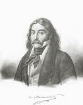 Alexander Mavrocordato the first primeminister after the revolution Greek 1821